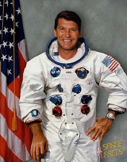 Portrait of American astronaut Walter Schirra